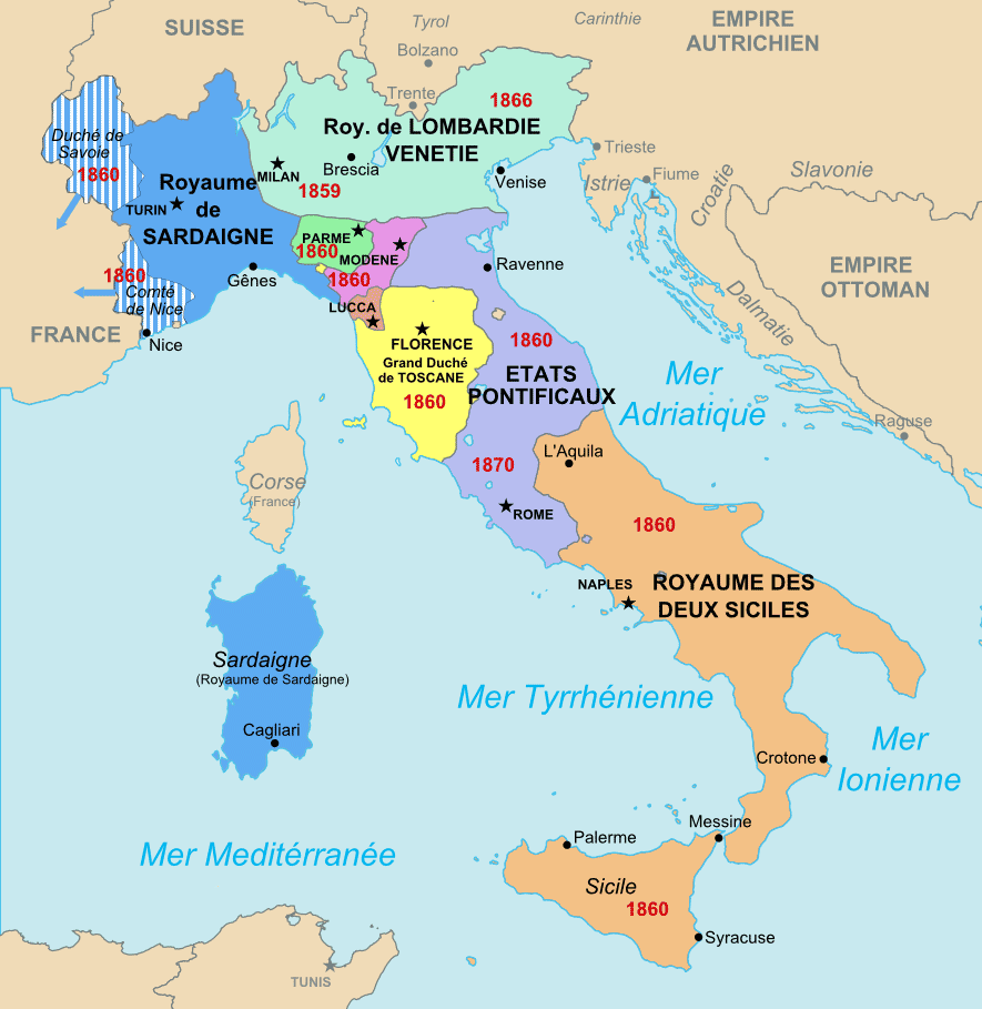 Map of Italy in 1843.